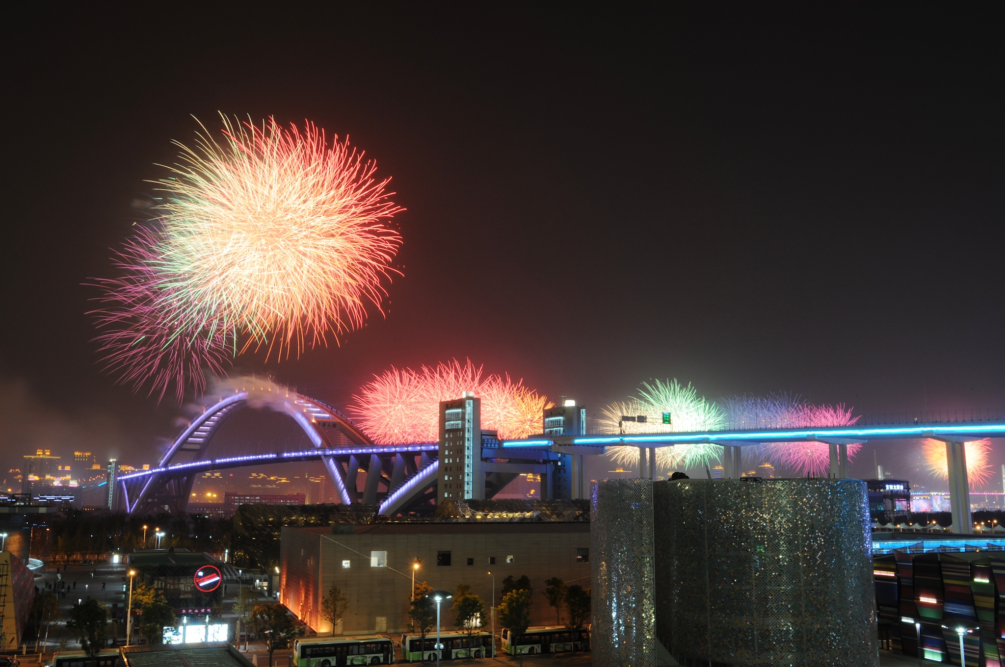 Expo's opening-night fireworks light up the Shanghai skyline on the evening of April 30, 2010. These photographs are taken from the rooftop bar on the Swedish pavilion. By Stefan Geens